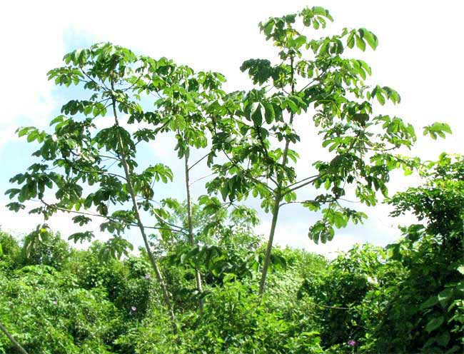 Cecropia peltata growing in Yokdzonot.